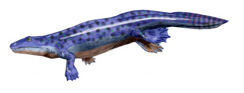 Ichthyostega pencil drawing, digital coloring, based on reconstruction by Ahlberg, 2005